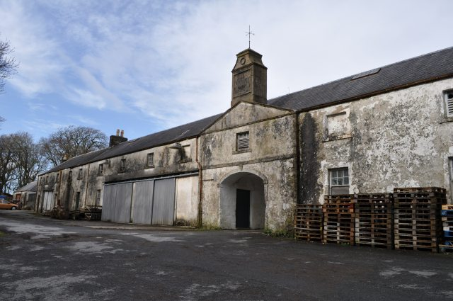 Islay House Estate Buildings At one time these would have been the farm buildings associated with Islay House. Most are now in use as craft shops and a brewery. The central tower looks as if it had a clock at one time.